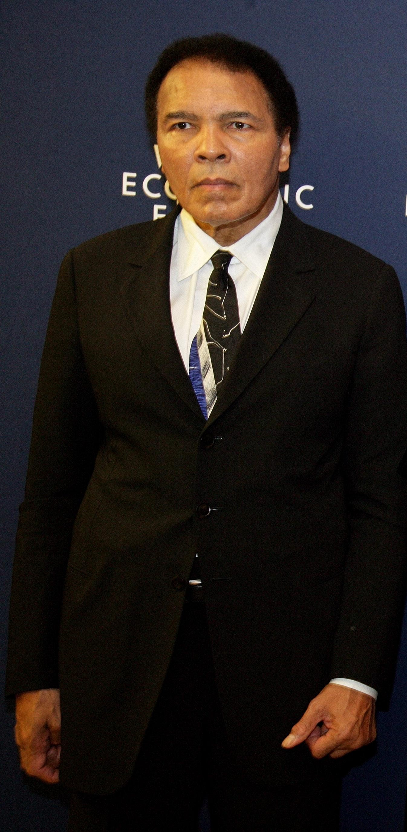 DAVOS/SWITZERLAND, 28JAN06 - FLTR: Muhammad Ali, Former Heavyweight-Boxing Champion, Greatest of All Time (GOAT), USA, Shabana Azmi, Actress and Social Activist, India, Michael Douglas, Director, Producer and Actor, USA and Gilberto Gil, Minister of Culture of Brazil captured at the Presentation of the Crystal Awards at the Annual Meeting 2006 of the World Economic Forum in Davos, Switzerland, January 28, 2006.